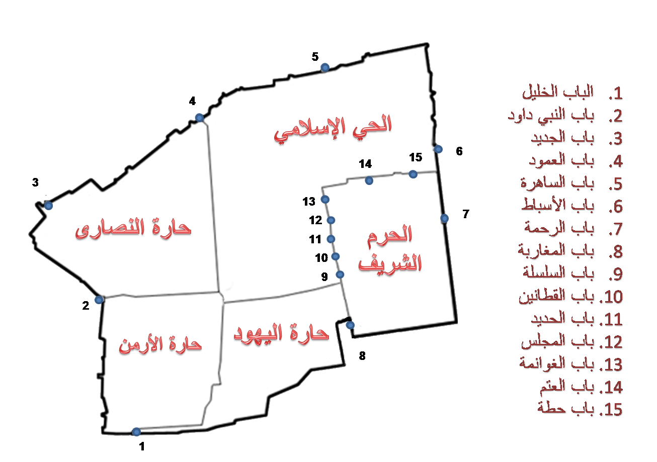 A Map of Jerusalem Showing the Gates in Arabic